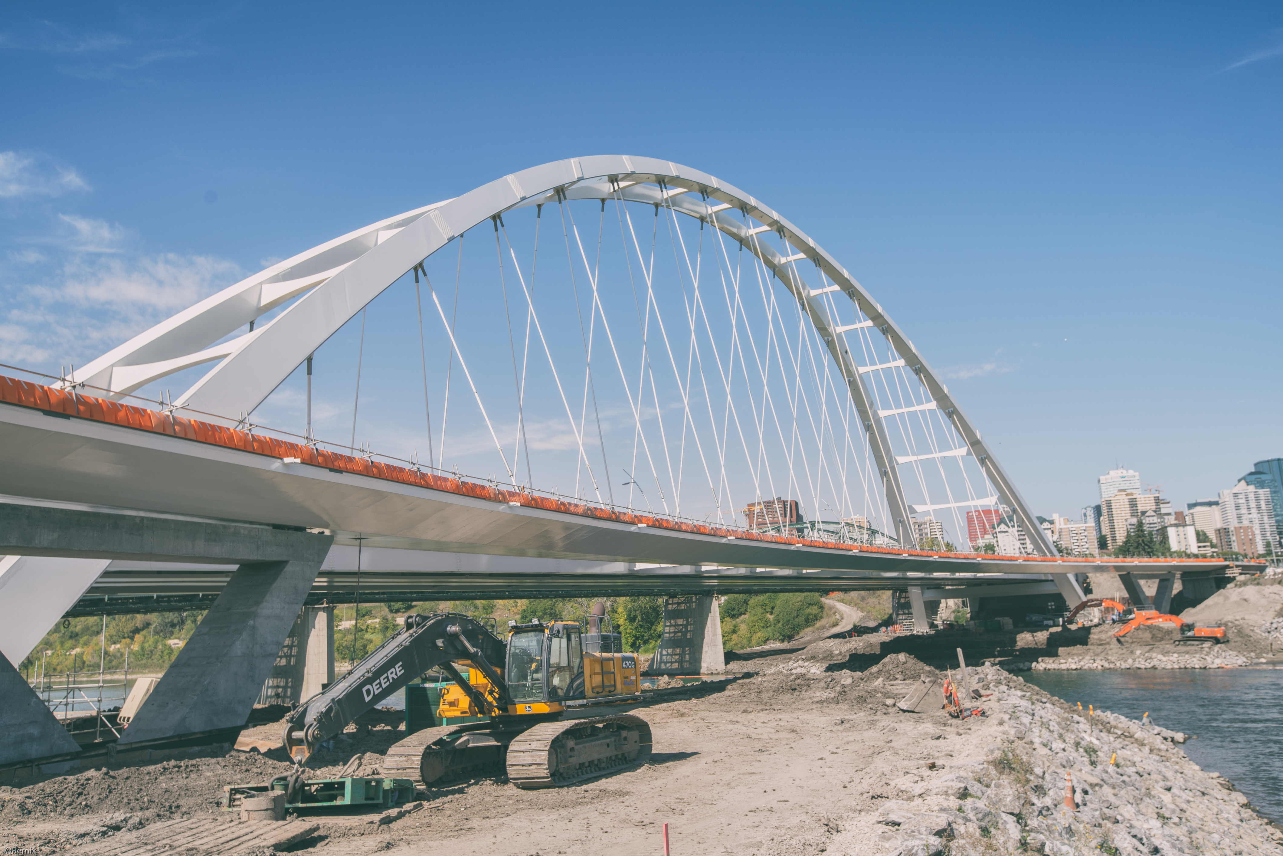 Walter Dale Bridge - Edmonton